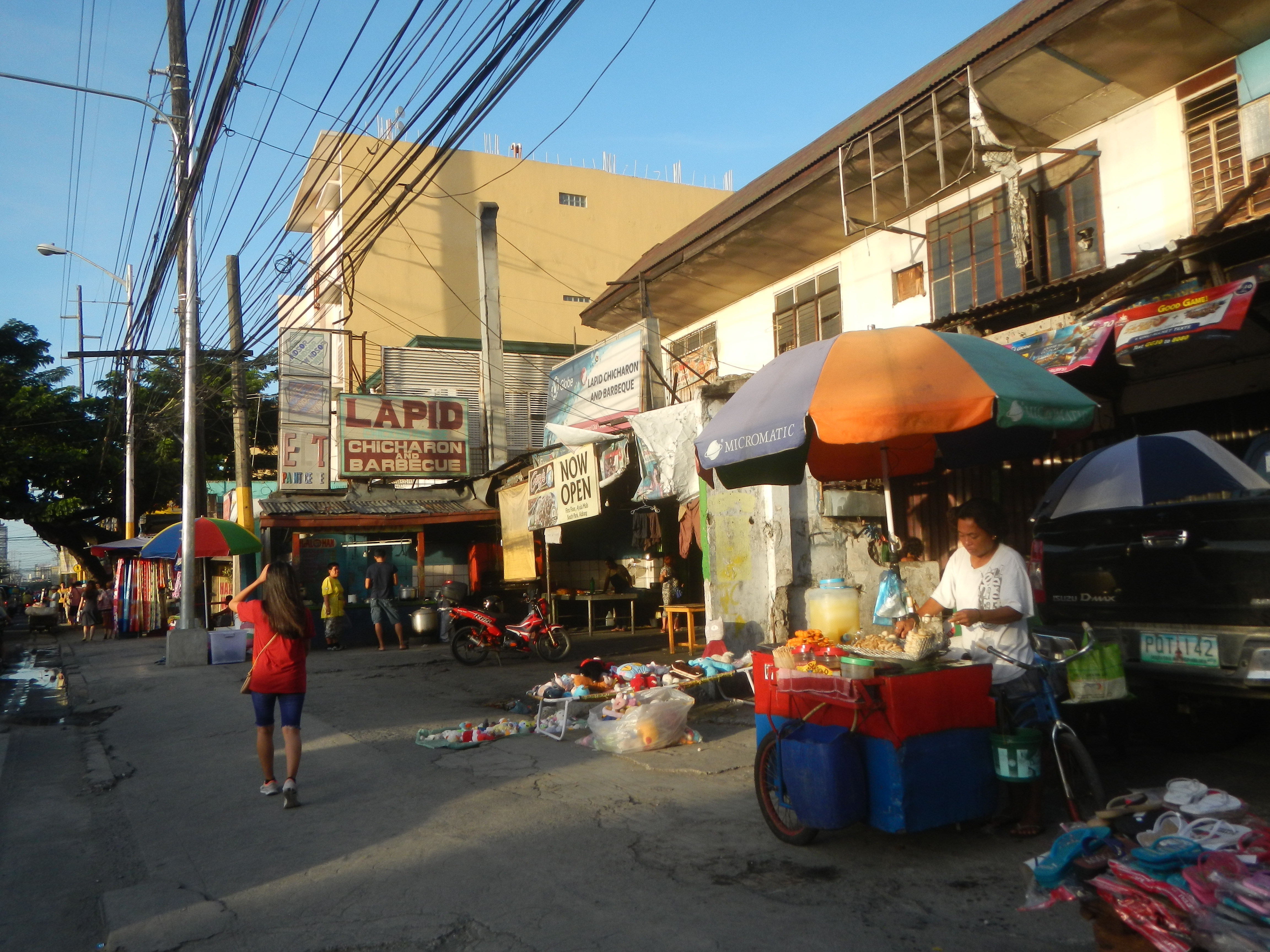 Ayala Malls South Park (National Road, Bayanan, Muntinlupa City) National Road (Alabang, Bayanan, Putatan and Poblacion), Muntinlupa City Barangays Sucat 14°27'19"N 121°2'51"E Alabang 14°24'59"N 121°2'33"E Bayanan 14°24'28"N 121°2'44"E Putatan 14°23'50"N 121°2'14"E Poblacion 14°22'48"N 121°1'53"E Buli 14°26'37"N 121°2'54"E City of Muntinlupa Alabang AyalaAlabang Poblacion, Muntinlupa New Bilibid Prison Bureau of Corrections (Philippines) Putatan, Muntinlupa Tunasan Philippine highway network (Note: Judge Florentino Floro, the owner, to repeat, Donor Florentino Floro of all these photos hereby donate gratuitously, freely and unconditionally Judge Floro all these photos to and for Wikimedia Commons, exclusively, for public use of the public domain, and again without any condition whatsoever).